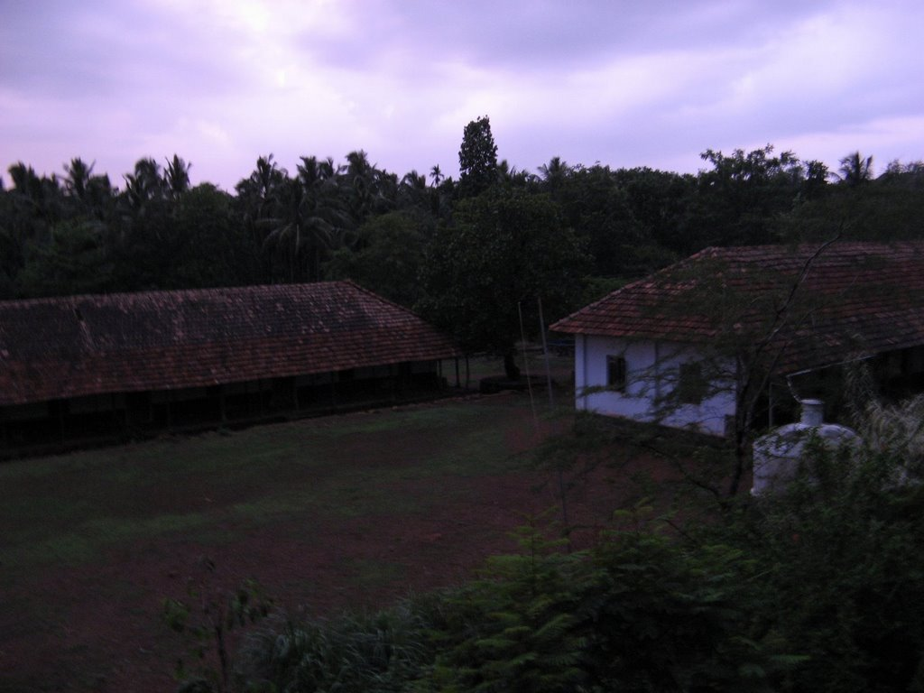 Elertithatth LP school, shot in the fading dusk light